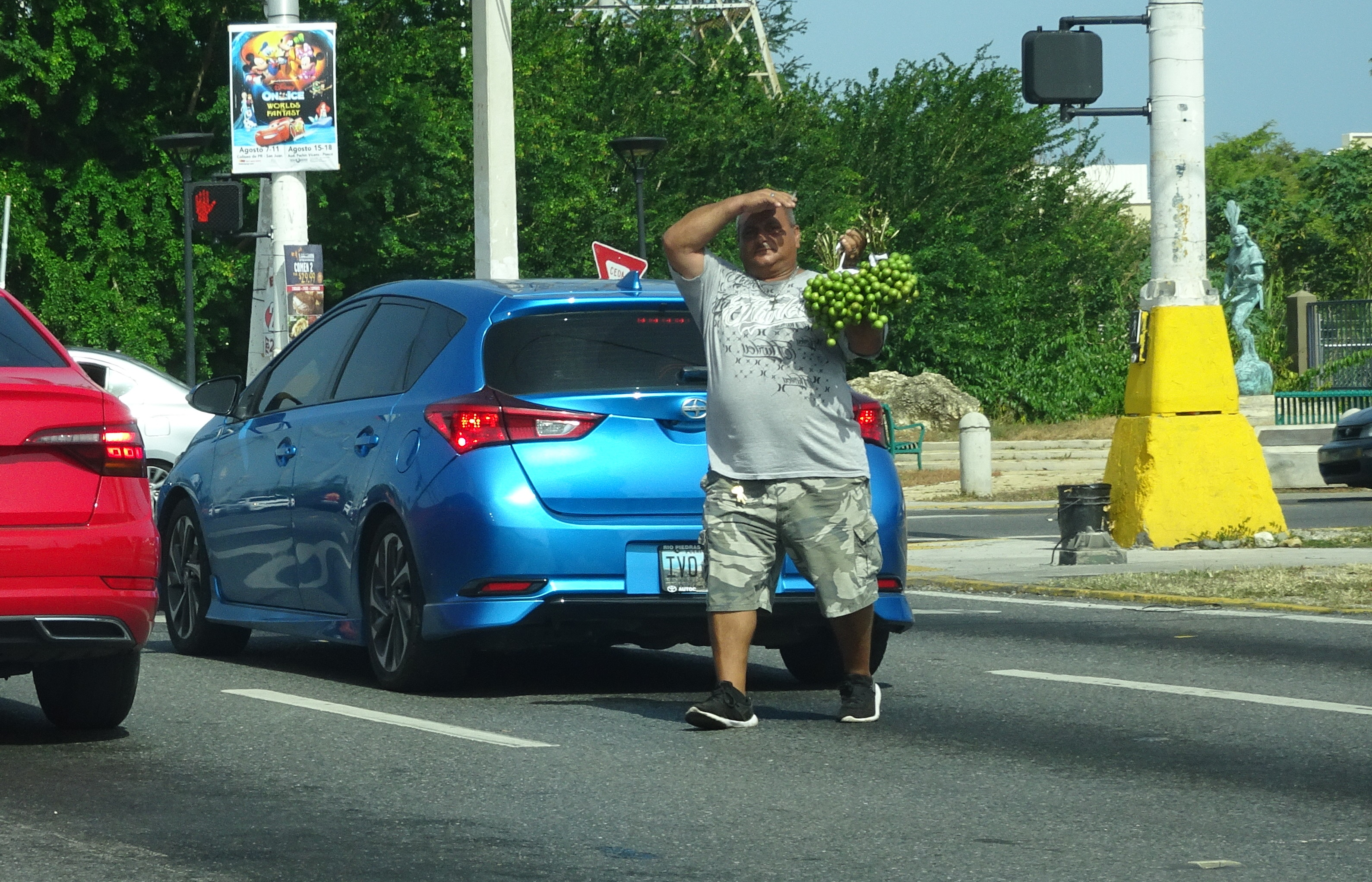 Hombre vendiendo quenepas en Ponce Bypass (PR-2) y Ave. Hostos (PR-123), Bo. Playa, Ponce, PR, mirando al sureste (DSC01400)